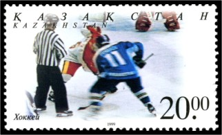 Stamp of Kazakhstan